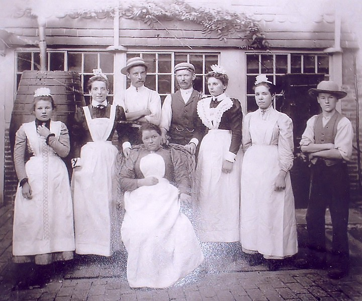 Staff of Mansion House